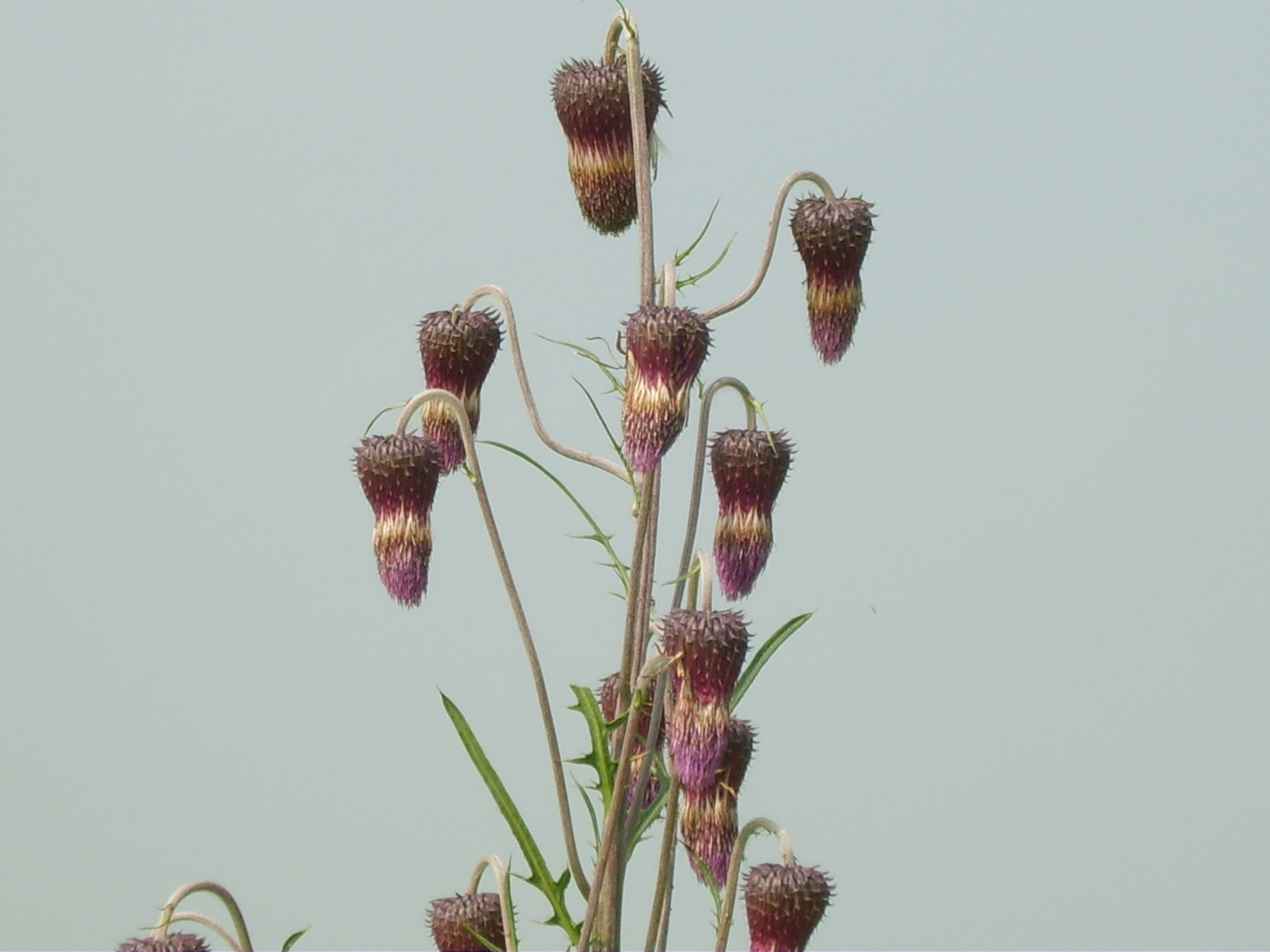 Cirsium pendulum in Kimpo, Korea